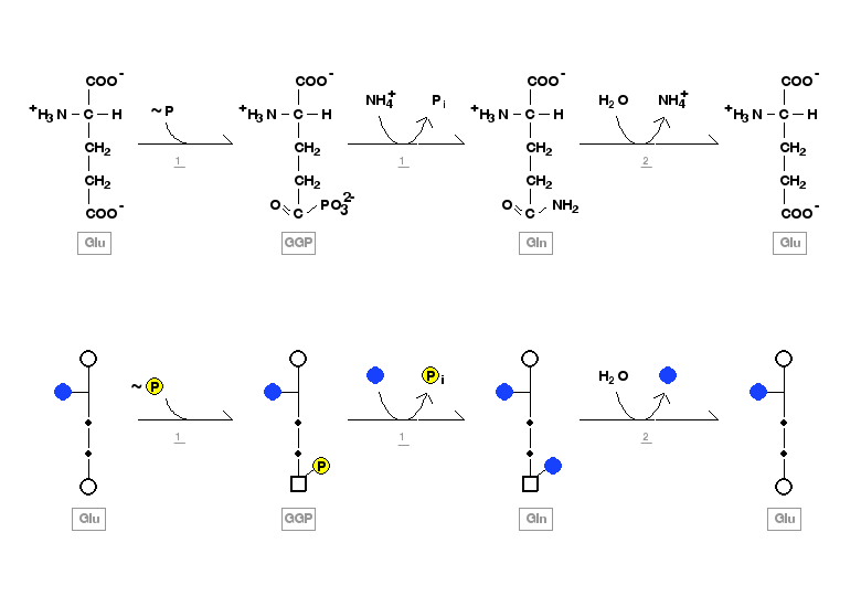 Glutamine formation for transport of ammonium to liver